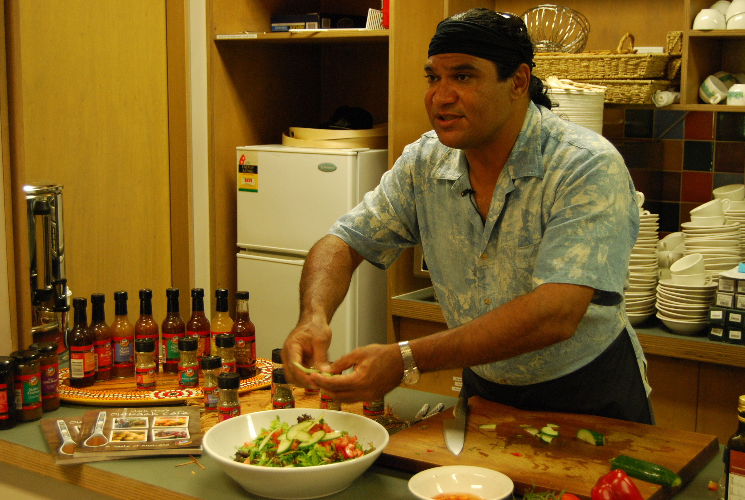 Photograph of Mark Olive working with outback ingredients in Melbourne in January 2008